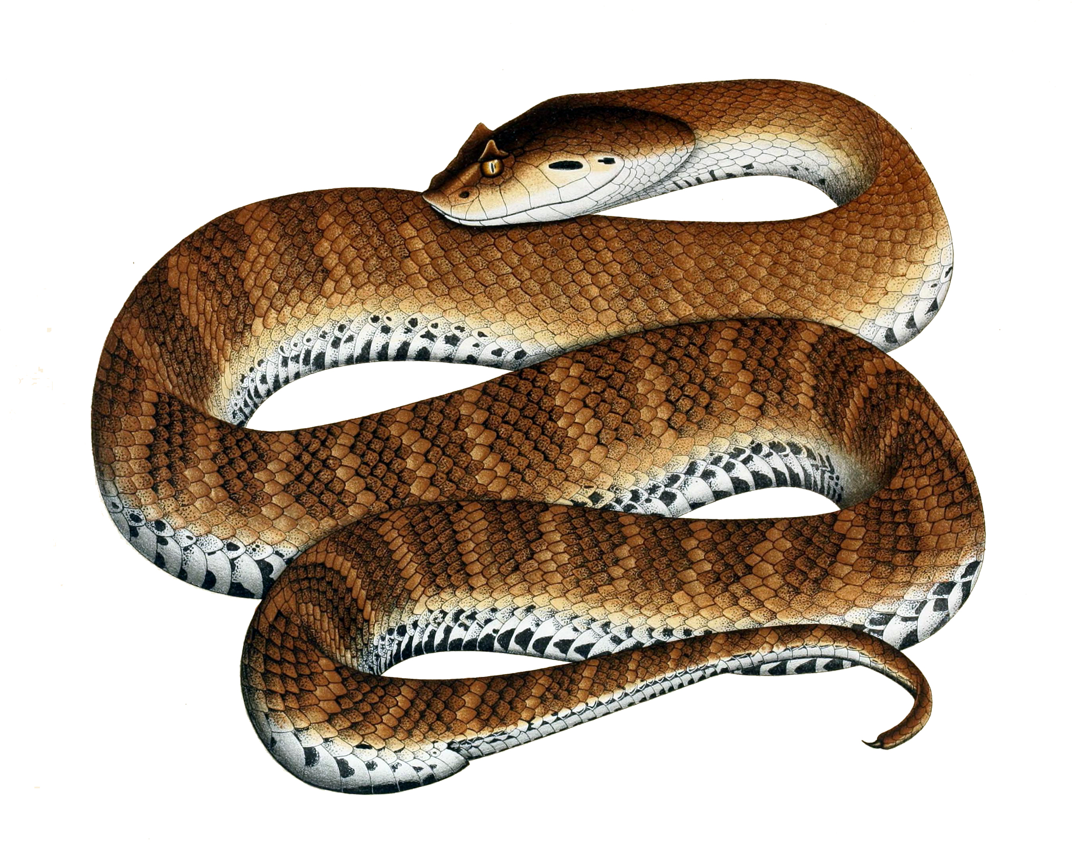 Acanthophis antarcticus